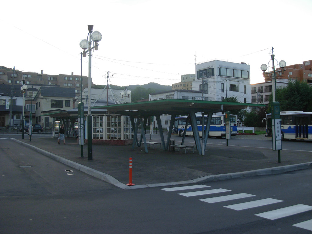 Sapporo_City_Transportation_Bureau(en)Keimei bus terminal